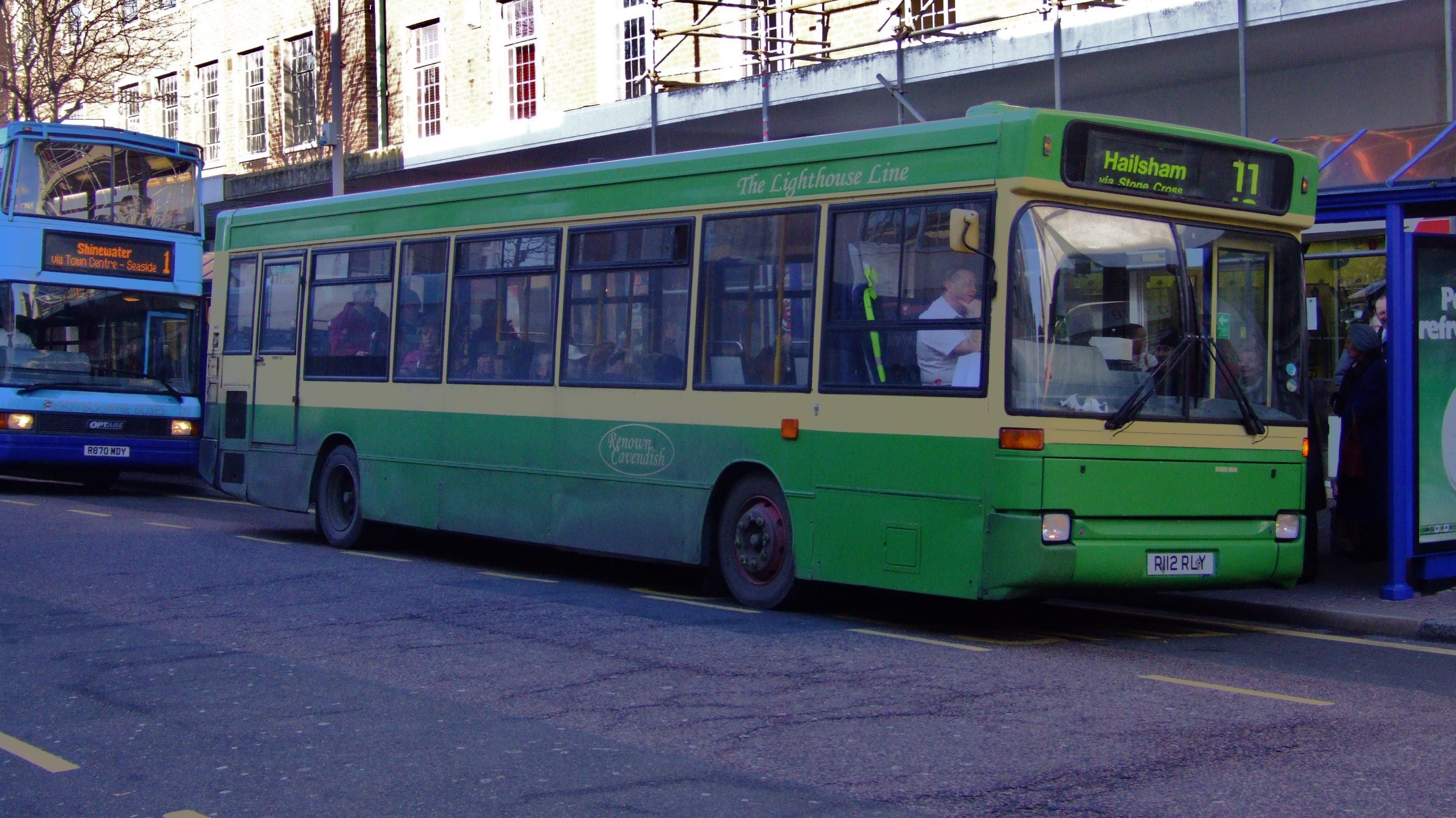 Cavendish Motor Services 43 (R112 RLY), a Dennis Dart SLF/Plaxton Pointer, in Eastbourne on route 11.